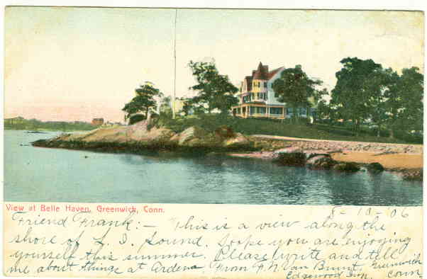 Postcard: Belle Haven, Greenwich, Connecticut, 1906 postcard Description: "It measures 5 1/2 inches by 3 1/2 inches. It depicts view of a river or harbor with a Victorian home in the background and the caption reads View at Belle Haven, Greenwich Conn.. It is postmarked 1906." The same Web page shows the reverse side of the mailed postcard, showing an August 11, 1906 postmark. Reverse also says: "Globe Stamp Company, Stamford, Conn. Made in Germany" Undivided back postcard, a type used from 1901-1907.